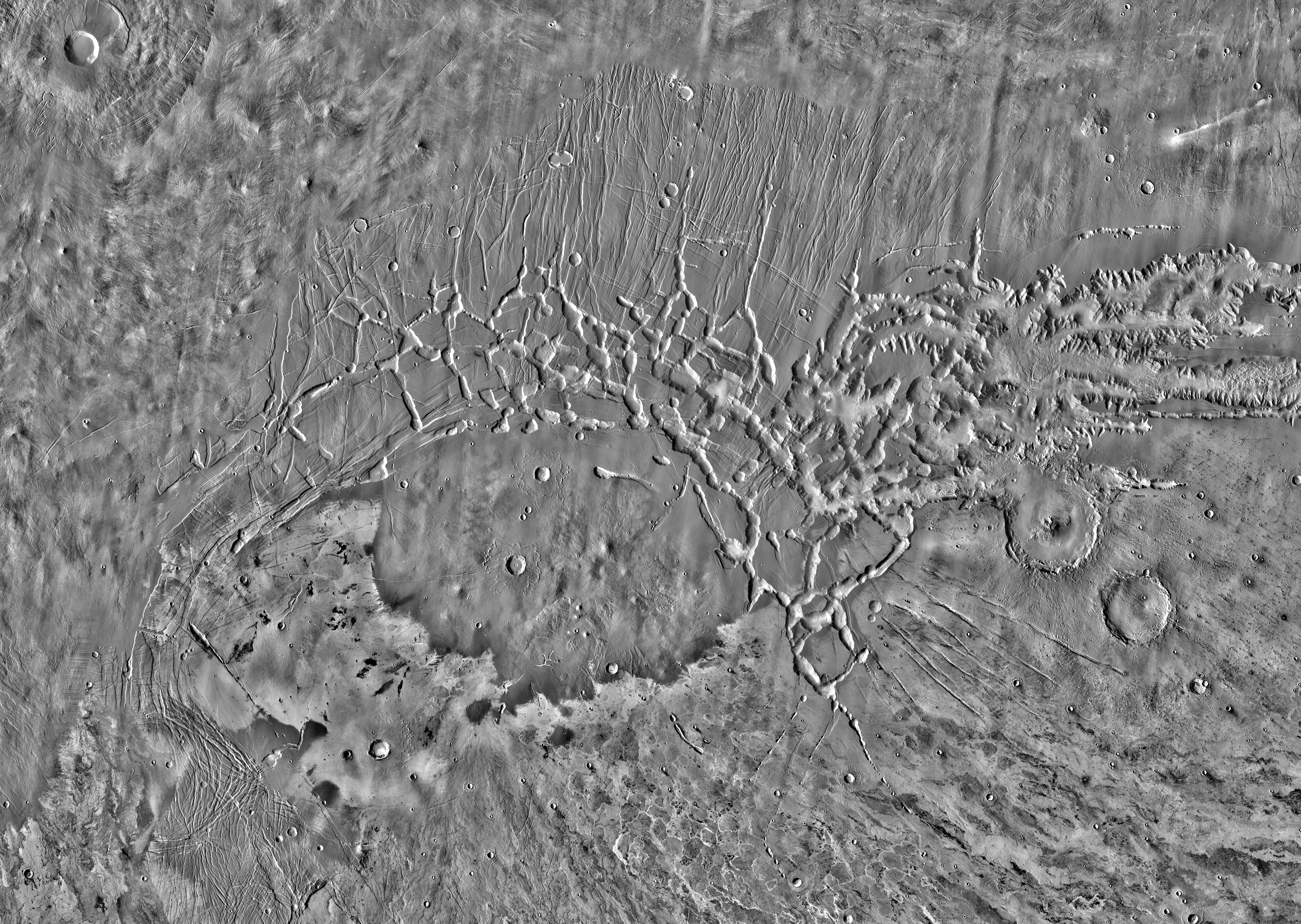 THEMIS daytime infrared image mosaic showing Noctis Labyrinthus, a region of Mars containing a maze-like system of deep, steep-walled valleys, and its surroundings. The Tharsis volcanic province is to the the west (the shield volcano Pavonis Mons is at upper left) and the canyon system Valles Marineris lies to the east. Some of the features in this mosaic are annotated in Wikimedia Commons.